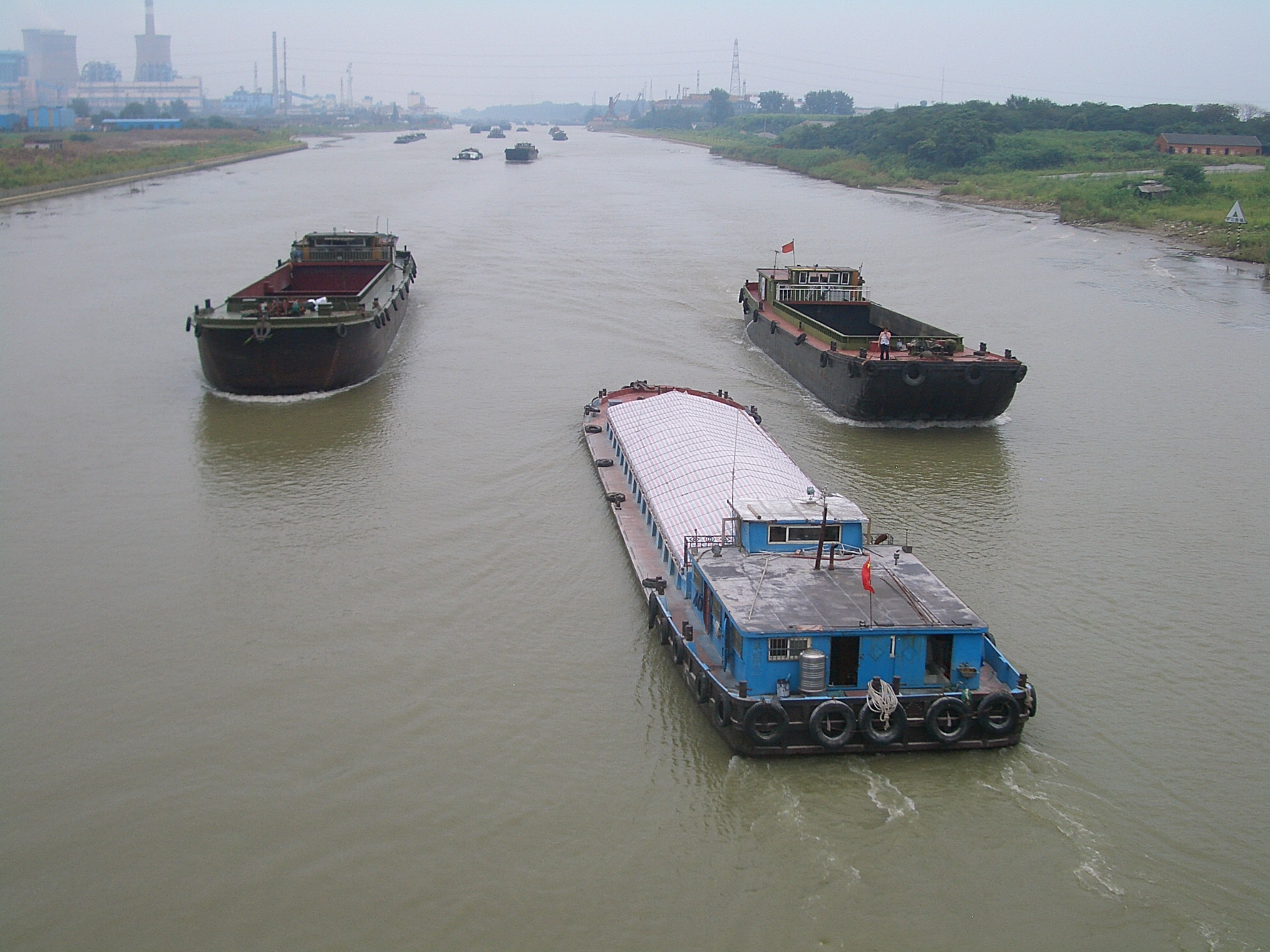 Self-propelled barges on the modern route of the Grand Canal of China on the eastern outskirts of Yangzhou. (Looking north from a bridge).